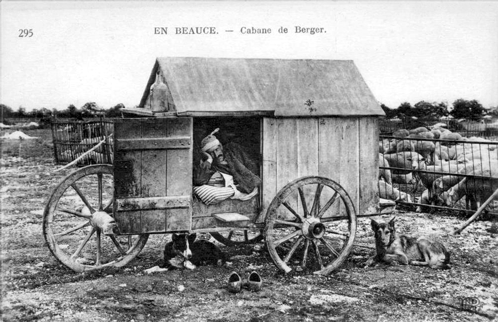 Wooden hut on wheels of a Beauce shepherd in the early 20th century.